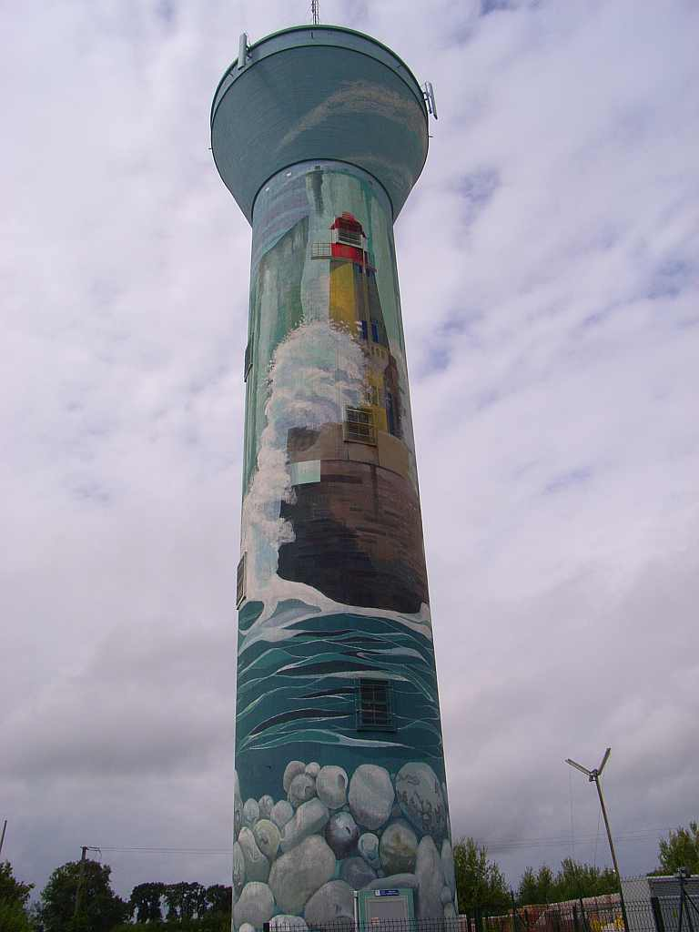 Water Tower of Toussaint, (Fecamp) Haute Normandie, FR